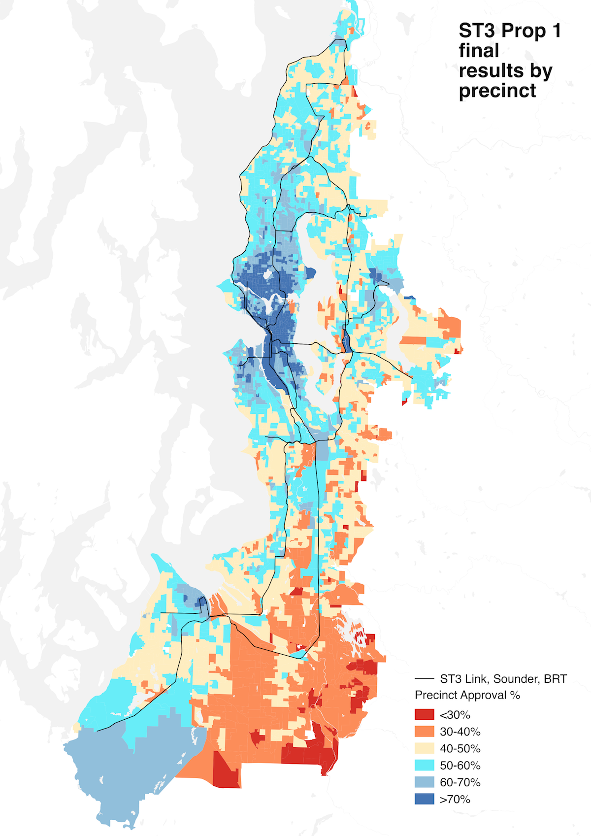 Map showing district-wide results of Sound Transit's Proposition 1 ballot measure in 2016 at the precinct level.